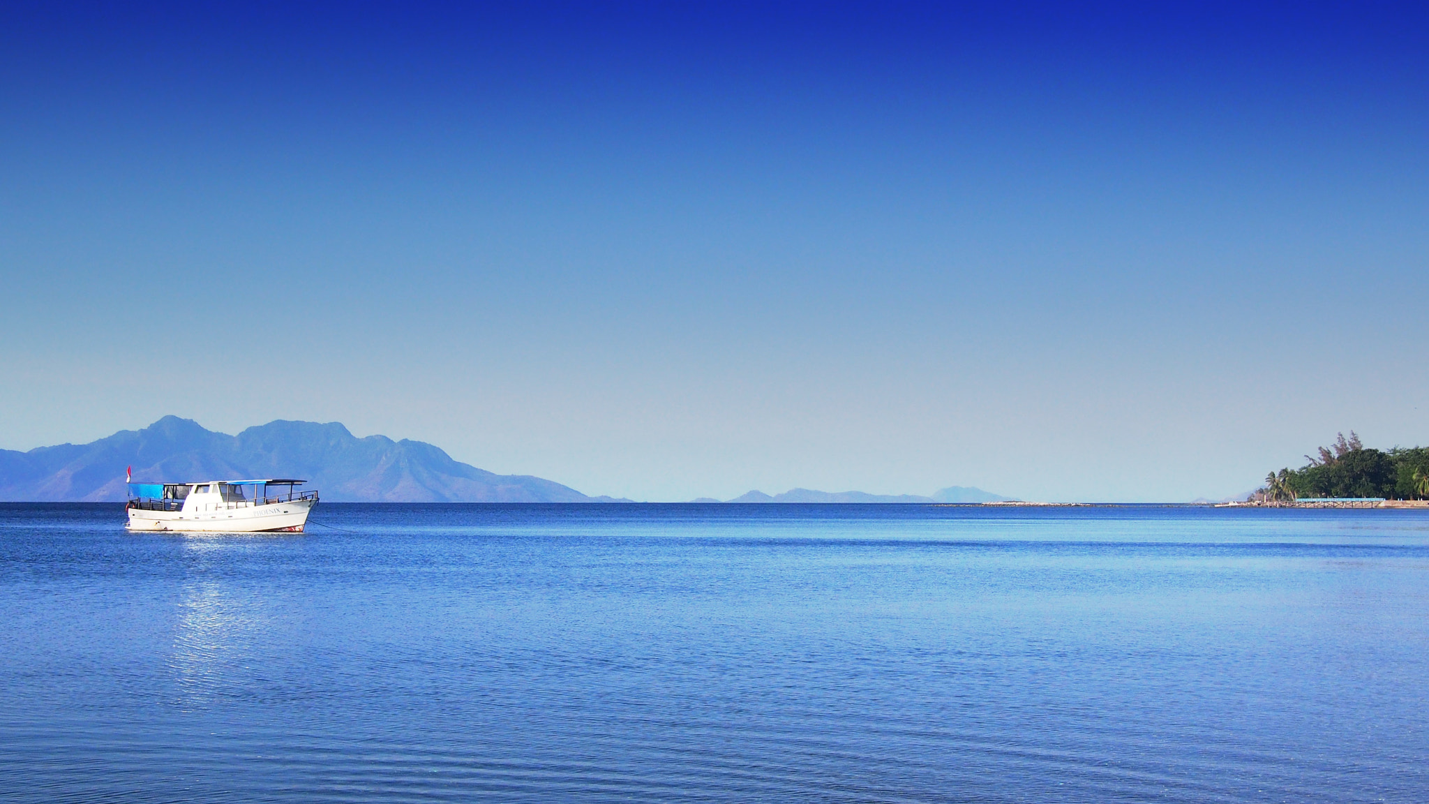 500px provided description: OLYMPUS DIGITAL CAMERA [#sea ,#boat ,#island ,#indonesia ,#flores]